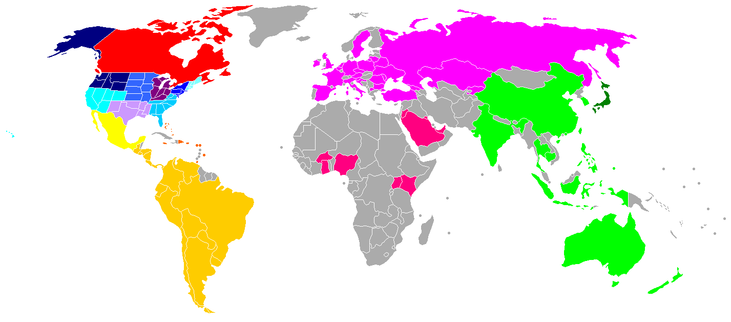 Map of the world divided into regions as established by Little League Baseball. Note: Only the Little League World Series uses all 16 regions. Other tournaments group their regions as in the table below (as per the 2007 tournaments).